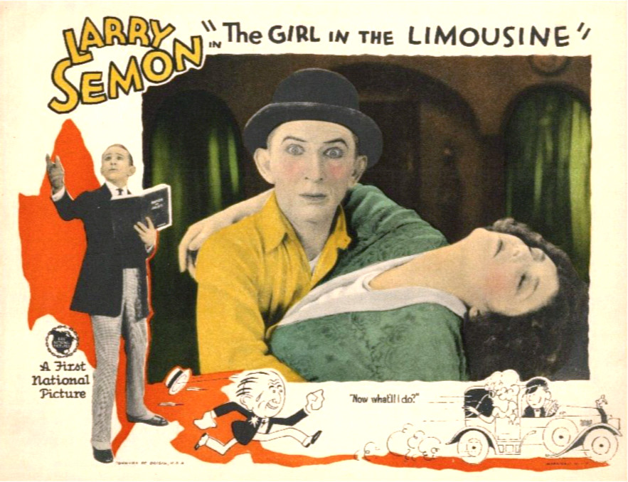 Lobby card for the American comedy film The Girl in the Limousine (1924). There are no copyright markings on the card. At bottom is Country of origin USA.